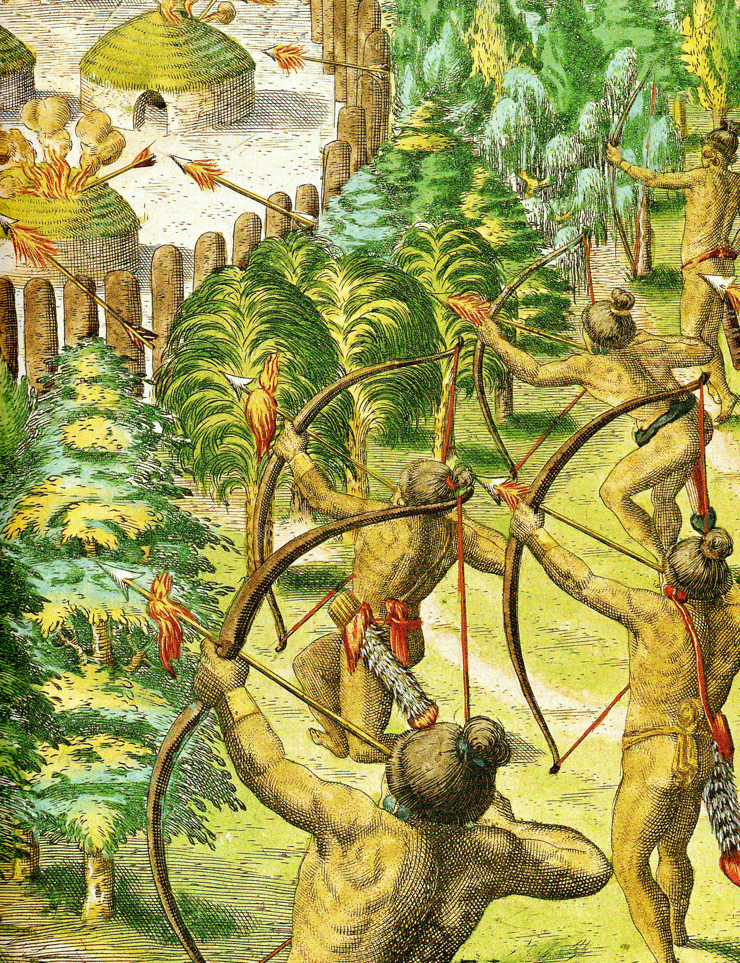 A 16th cent. engraving showing natives attacking a walled village with flaming arrows